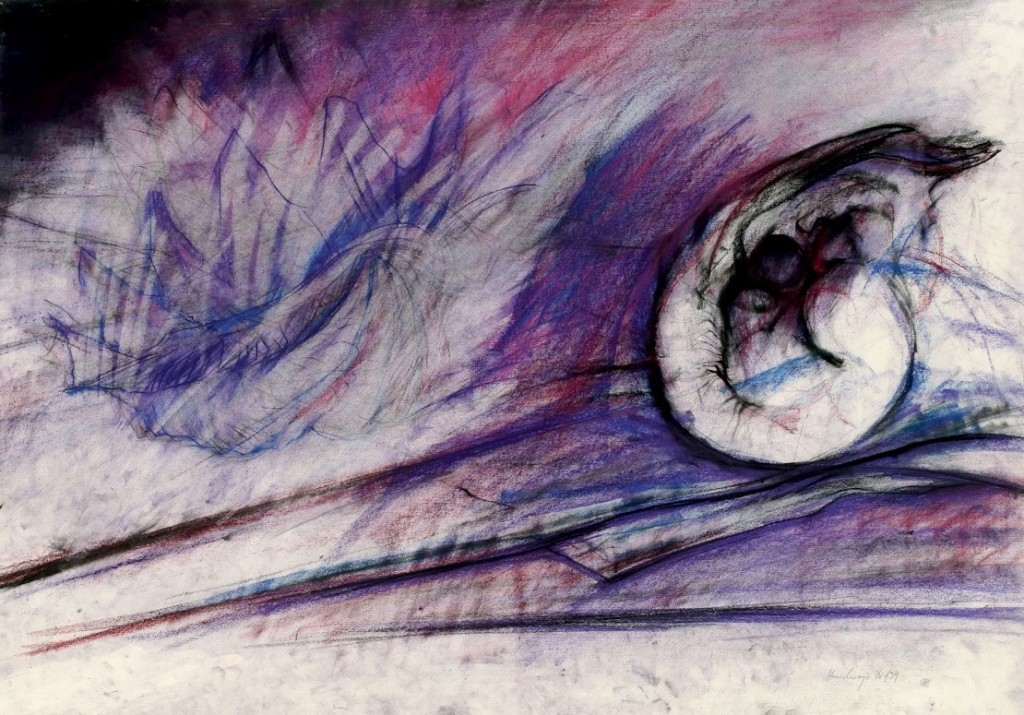 Ram's head and seashell, 1994, 70 x 100 cm, drawing, black and coloured chalk